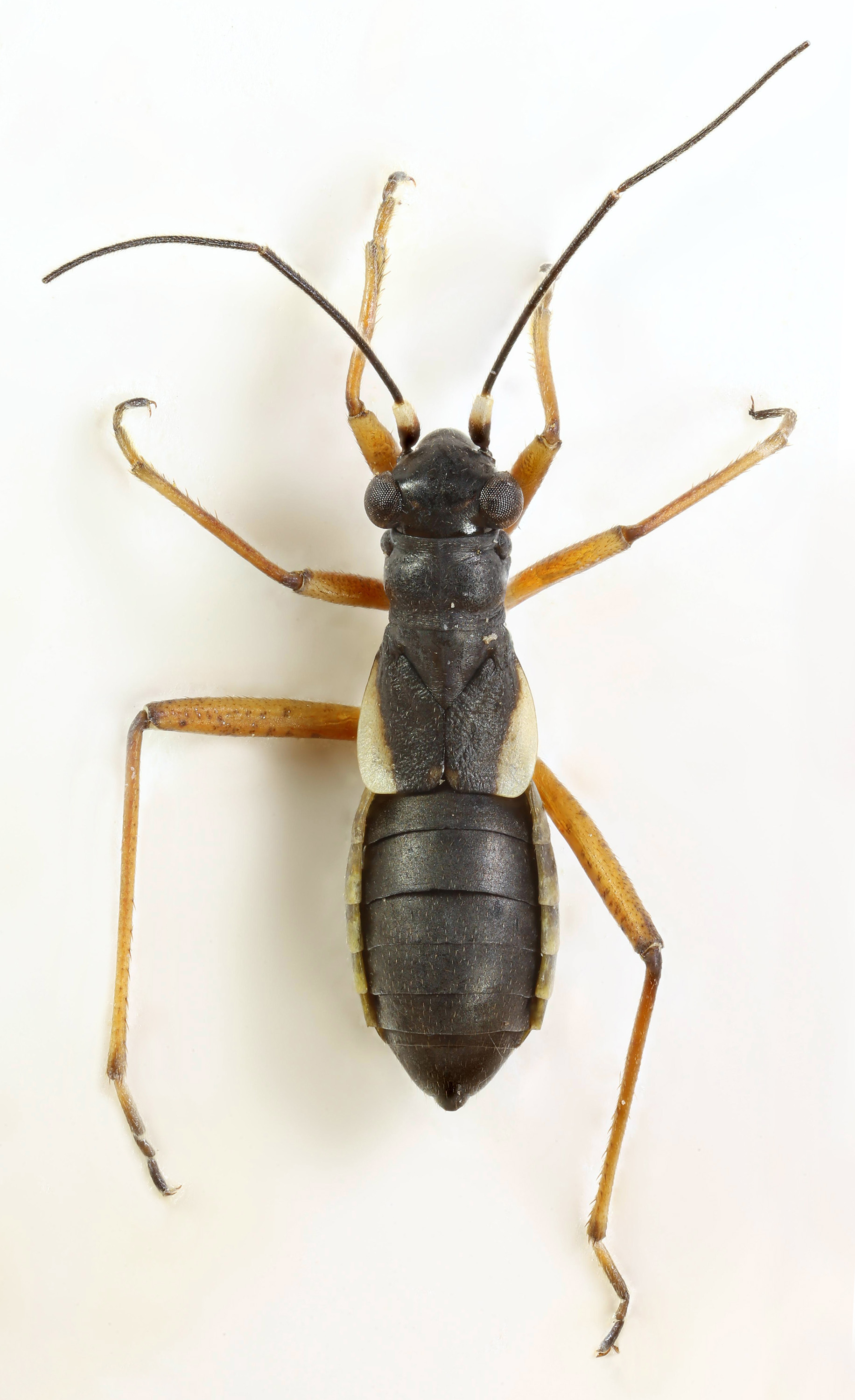 Pithanus maerkelii, Trawscoed, North Wales, Aug 2016